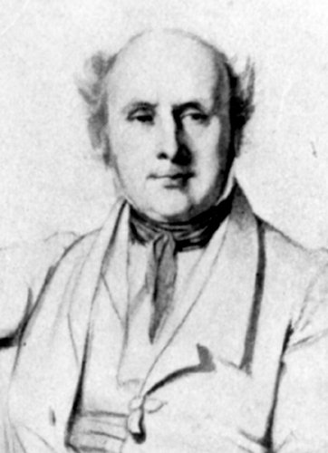 French entomologist Charles Athanase Walckenaer (1771–1852)